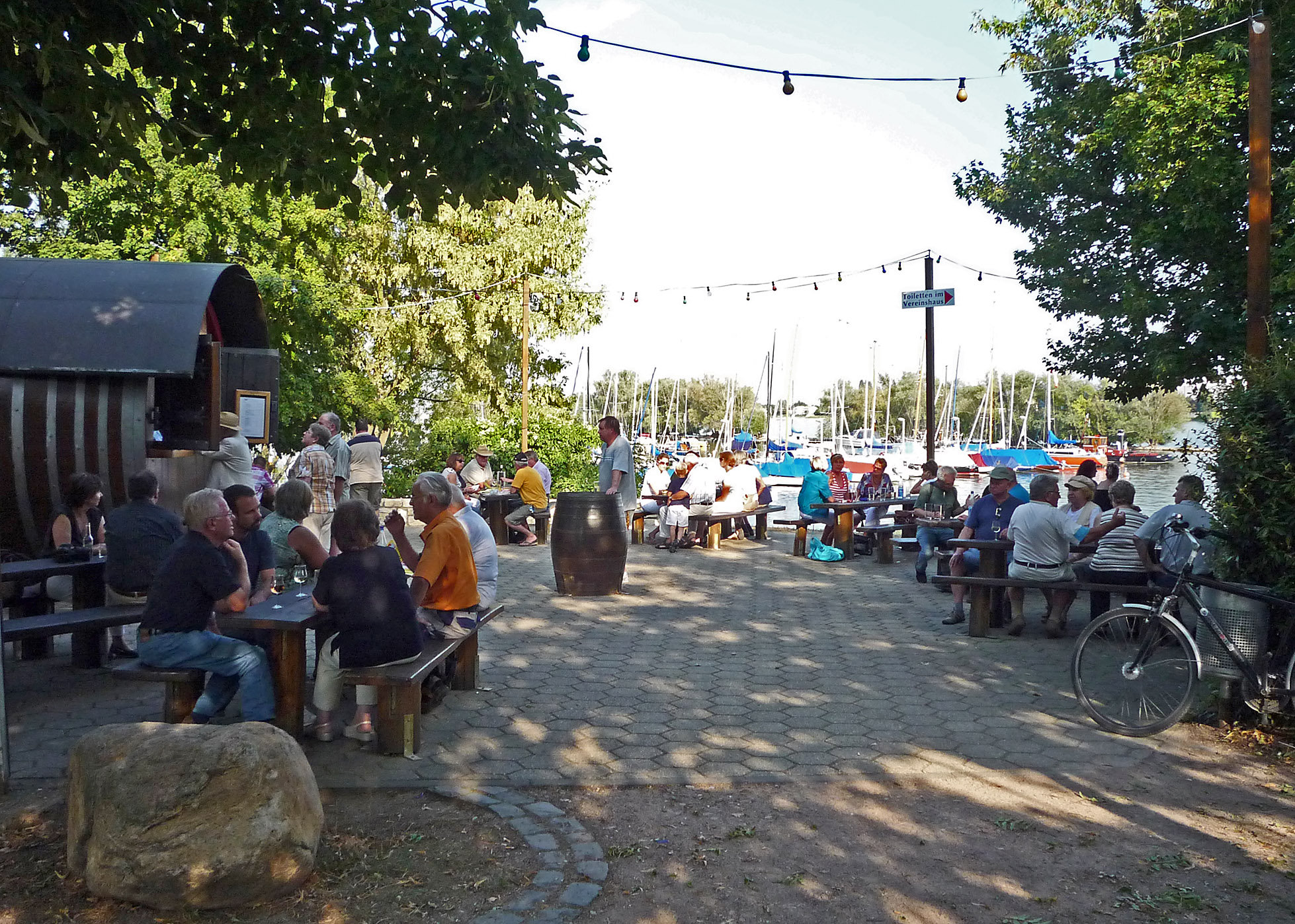 Wine tasting stands Rhine River bank in Walluf, Hesse, Germany (P1000661-L7x5h)